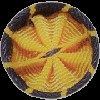 picture shot of AAAS fellow rosette pin